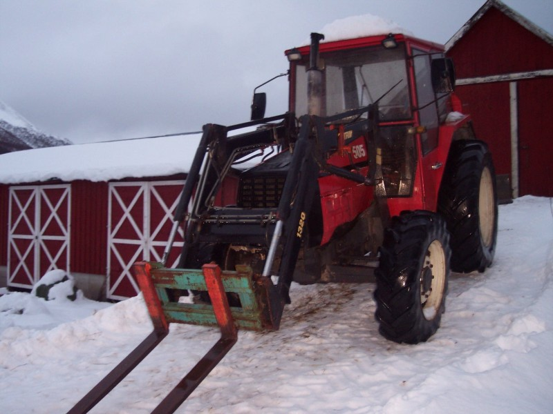 A Valmet tractor 505 with front loader